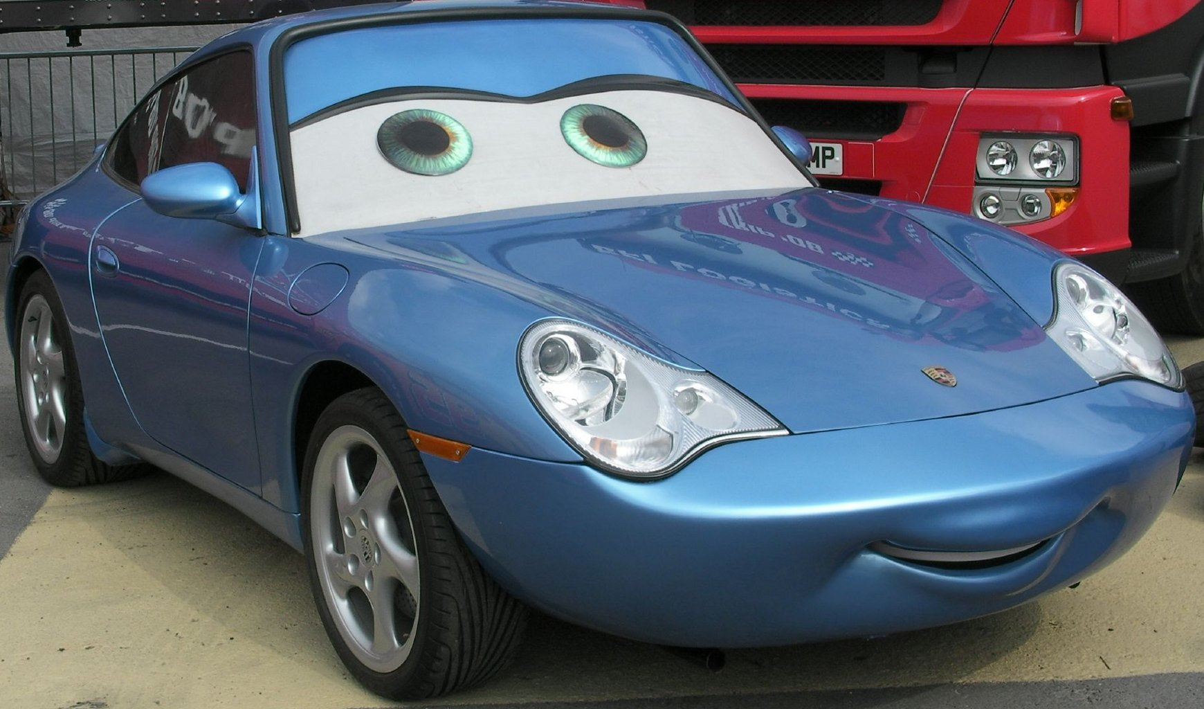 Eddie Paul Porsche 996 customisation as Sally Carrera, an animated cartoon motorcar from Pixar's Cars.